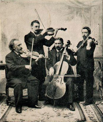 The string quartet of César Thomson (far left). Other musicians are Nicolas Lamoureux (2nd violin), Léon van Hout (viola) and Édouard Jacobs (cello).